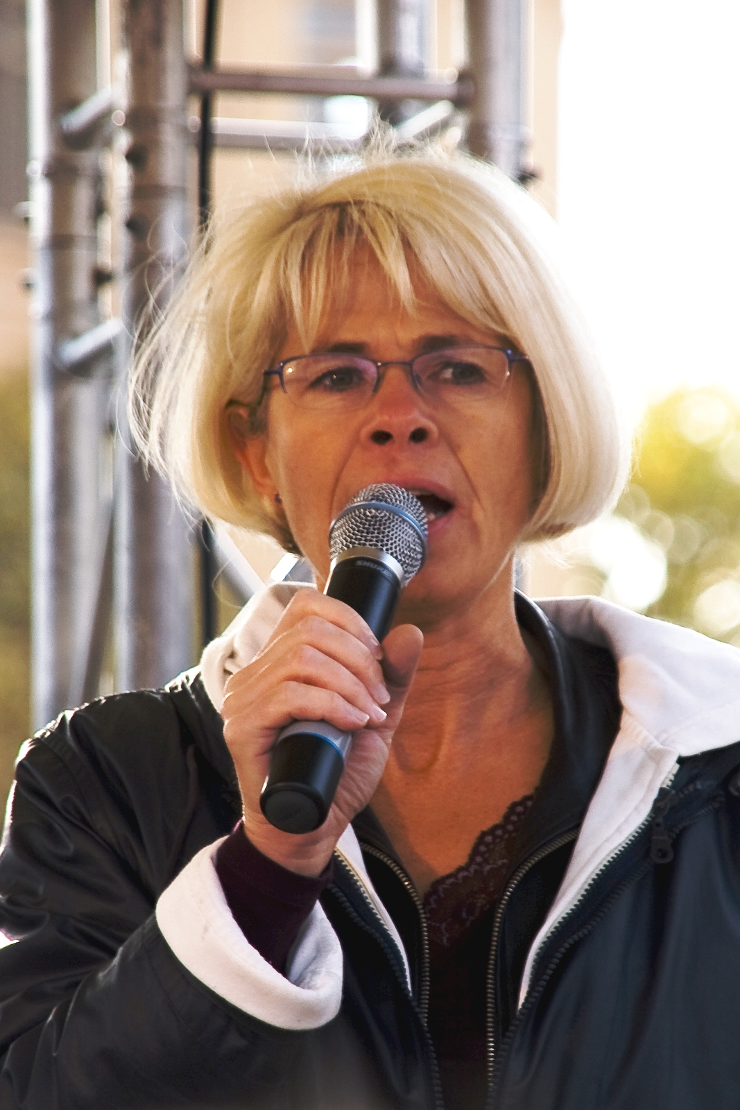 Angelika Gramkow The is a "derivative" image. I have taken a picture that someone else has already uploaded to wikipedia and reduced the shadow because (1) the original image had the brightest light in the background and (2) I hope that by adding brightness I can make the image more appropriate for using on small screens, especially on laptops where the screen in not angled "just so".